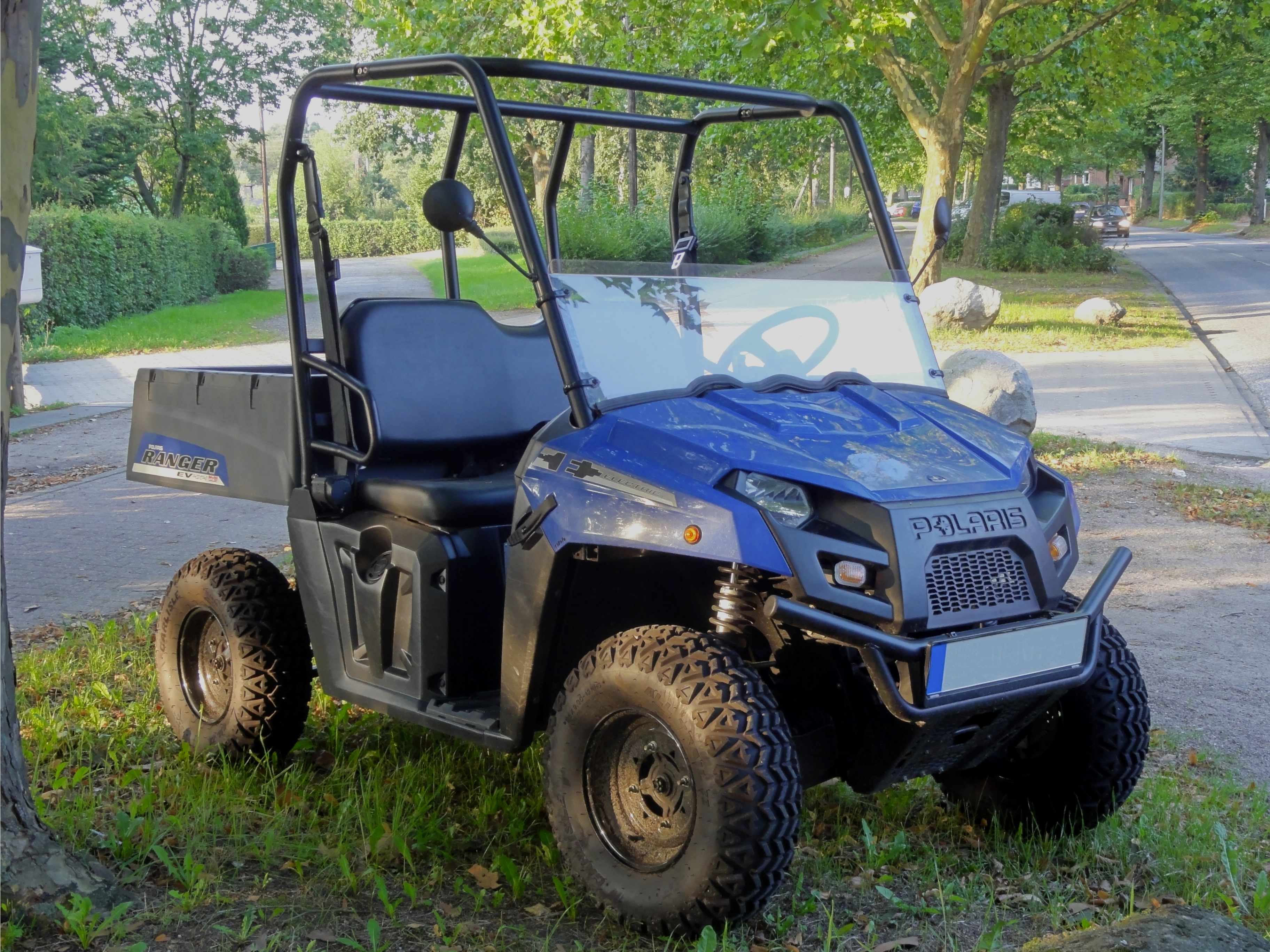 Polaris Ranger EV 2011 electric all-terrain vehicle[1]